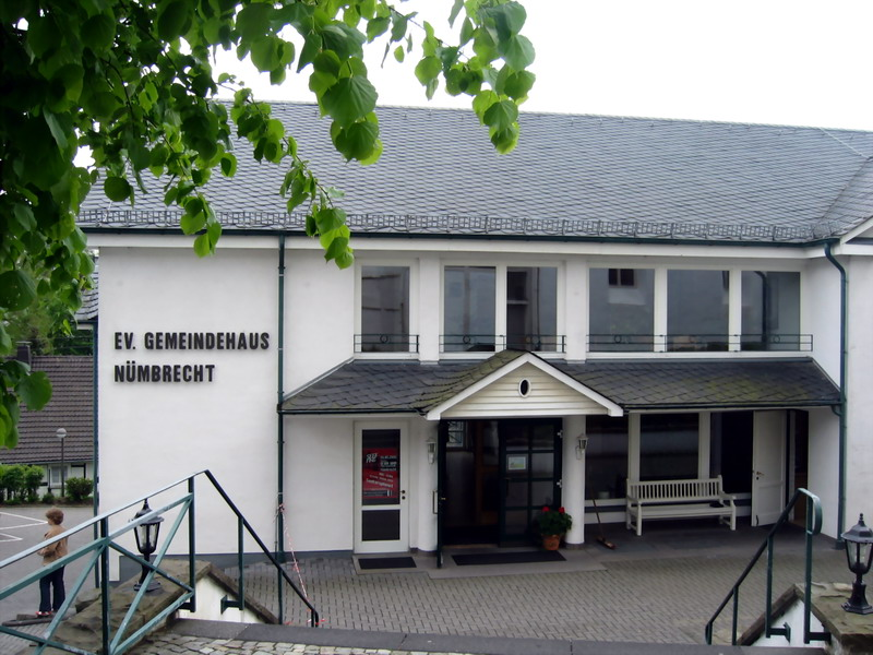 Parish hall the Ev. church at municipality Nümbrecht. - Blick auf das Gemeindehaus der Ev. Kirche in Nümbrecht. Author mrfinch Time of creation 29 Oct. 2004 Licence GNU FDL and CC-by-SA Camera Canon S 45